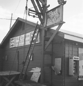 General Store, Waite, Maine. Taken 1994